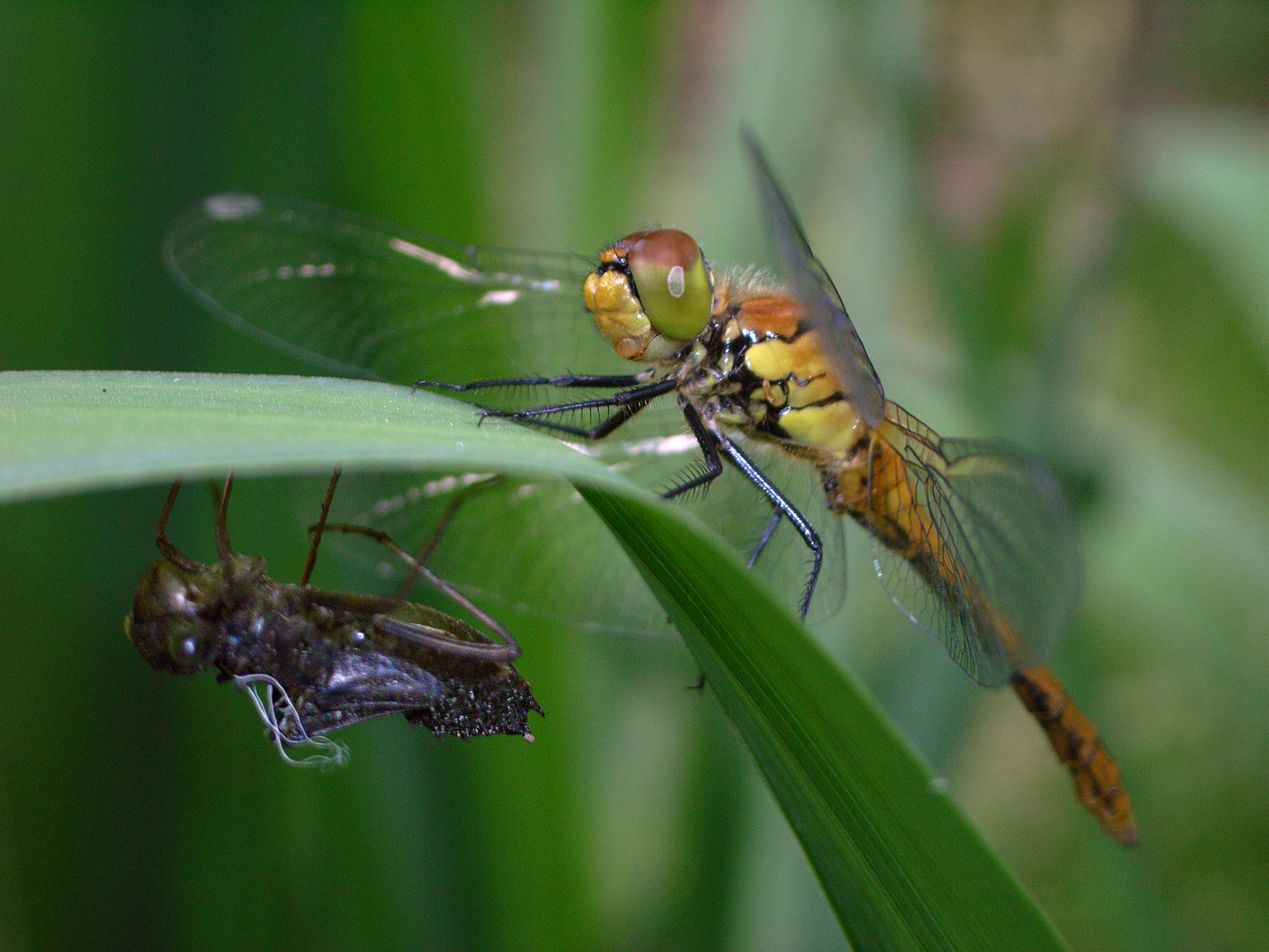 Unknown darter (Sympetrum), possibly Sympetrum sanguineum or Sympetrum vulgatum, found in Dorsten, Germany.